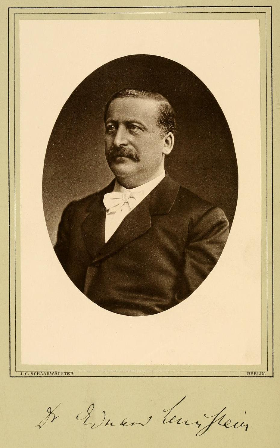 German physician, dr Eduard Levinstein (1831-1882)